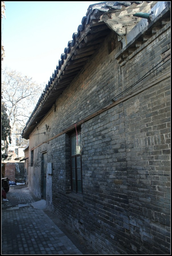 Cixi Handan palace is located in Handan City, Hebei Province, the original street in Handan Office on the north side of the hospital, built in 1901. Twenty six years Guangxu (1900), the Eight-Power Allied forces captured Beijing, Empress Dowager Cixi and Emperor Guangxu escape. The following year, after the signing of the Treaty, the Empress Dowager Cixi and Emperor Guangxu back to Luan, Handan palace for the Empress built one of the palace. According to "Handan County" records, in 1901 November Empress in Handan Handan.